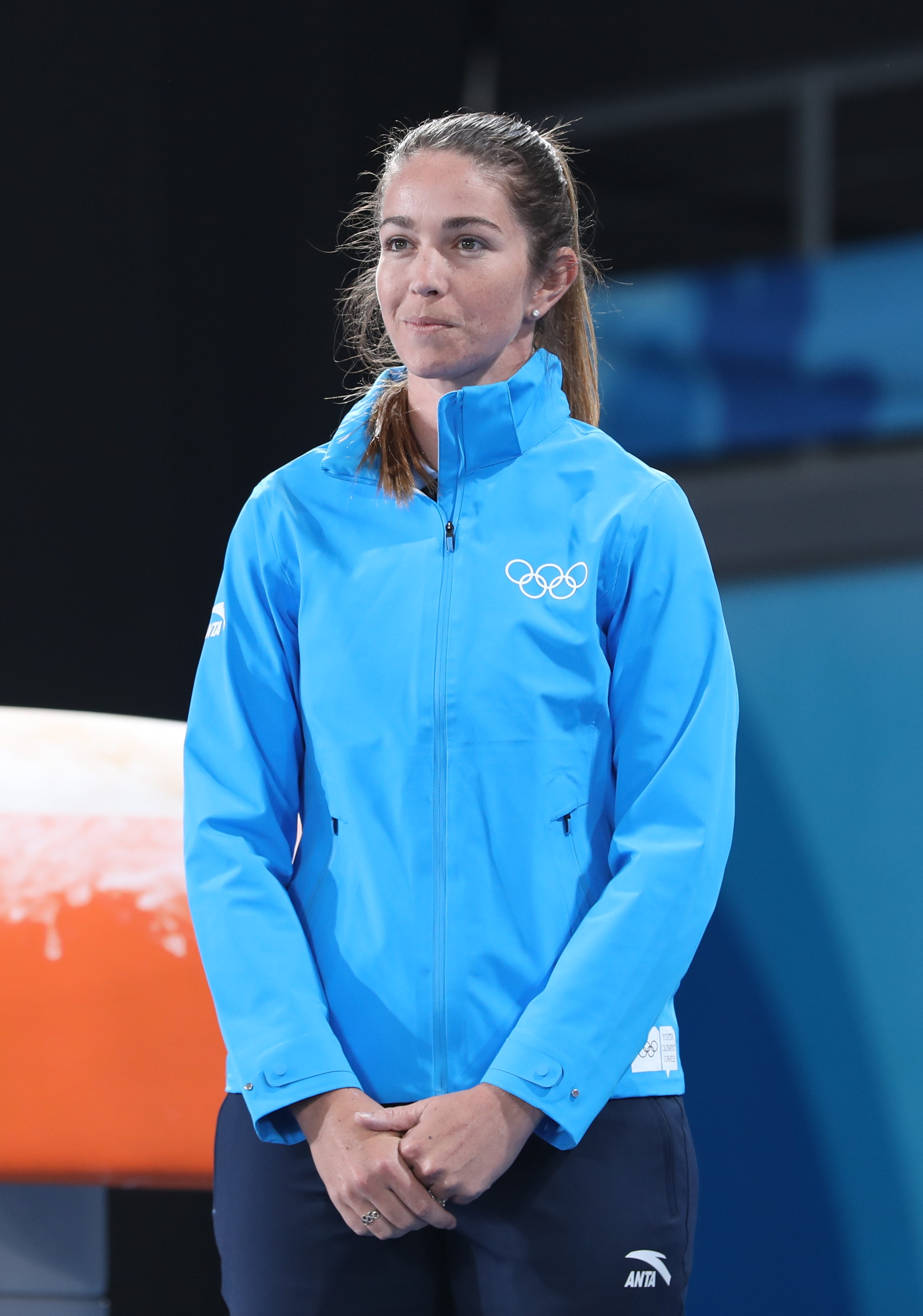 Gymnastics mixed multi-discipline team competition: Victory ceremony